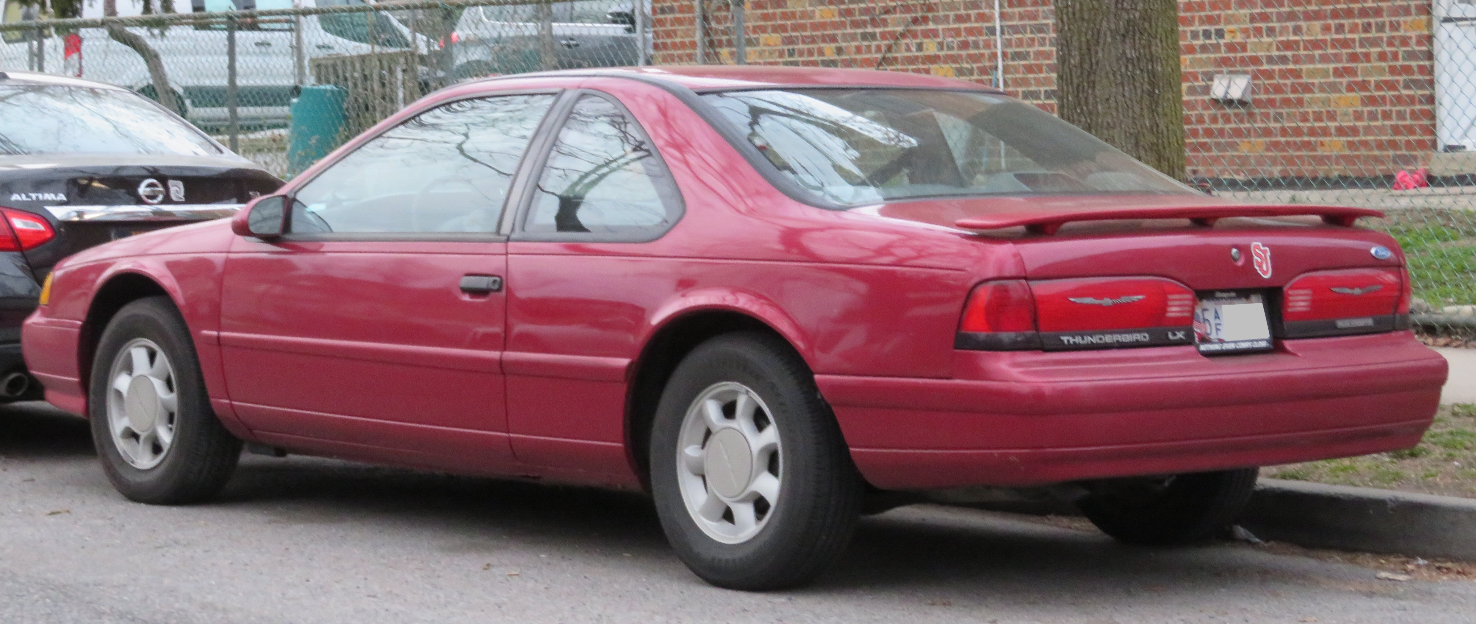 In Queens, New York